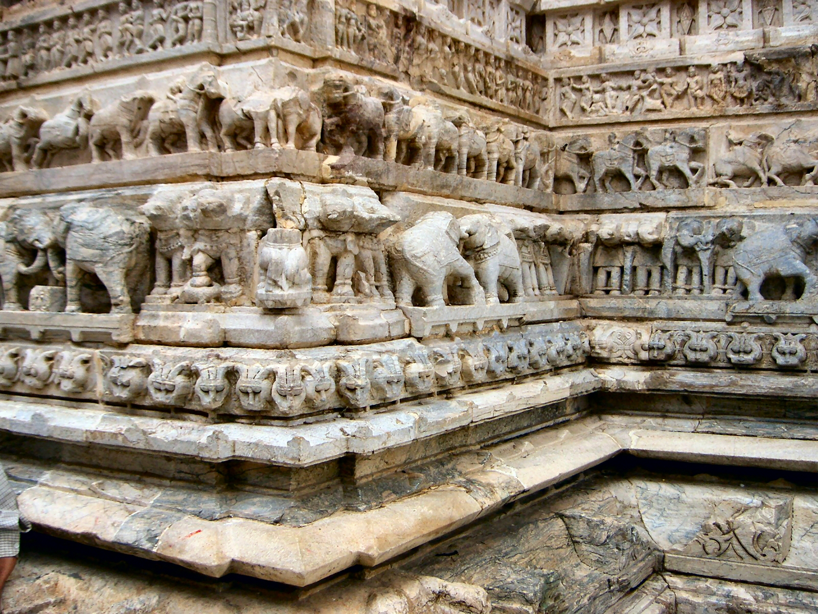 Carved elephants on the walls of Jagdish Mandir. Jagdish Temple - a Temple situated in the middle of the city - a big tourist attraction, also well-known as the temple of Jagannath Rai, now called Jagdish-jiis a major monument and should be seen carefully. Raised on a tall terrace and completed in 1651, it is a tribute alike to the tenacity of its builders and the resilence of the art tradition it represents. It attaches a double storeyed Mandapa (hall) to a double - storied, saandhara (that having a covered ambulatory) sanctum. The mandapa has another storey tucked within its pyramidal samavarna (bell - roof) while the hollow clustered spire over the sanctum contains two more, non - functional stories. Lanes taking off from many of the sheharpanah (city wall) converge on the Jagdish Temple and walking leisurely through them brings you face with the many layers of the cultural palimpsest that Udaipur is. It was built by Maharana Jagat Singh Ist in 1651 A.D. It is a good example of Indo - Aryan architecture.